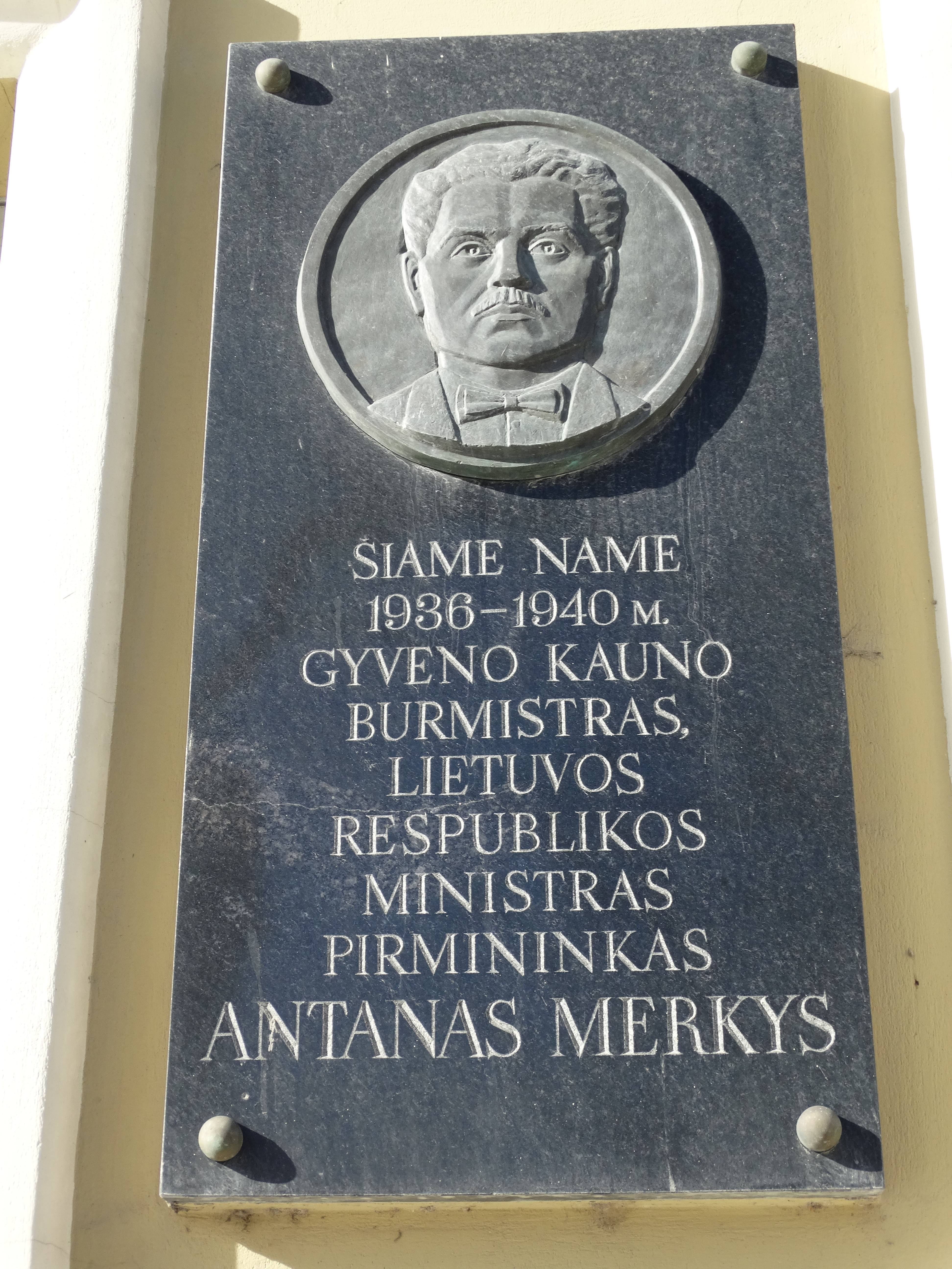 Memorial plaque to Antanas Merkys, Laisvės al.30, Kaunas, Lithuania